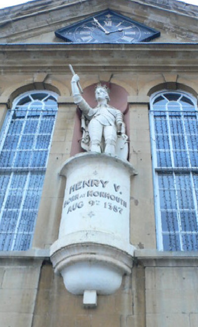 A statue to Henry V below the clock face of the Shire Hall in Monmouth.